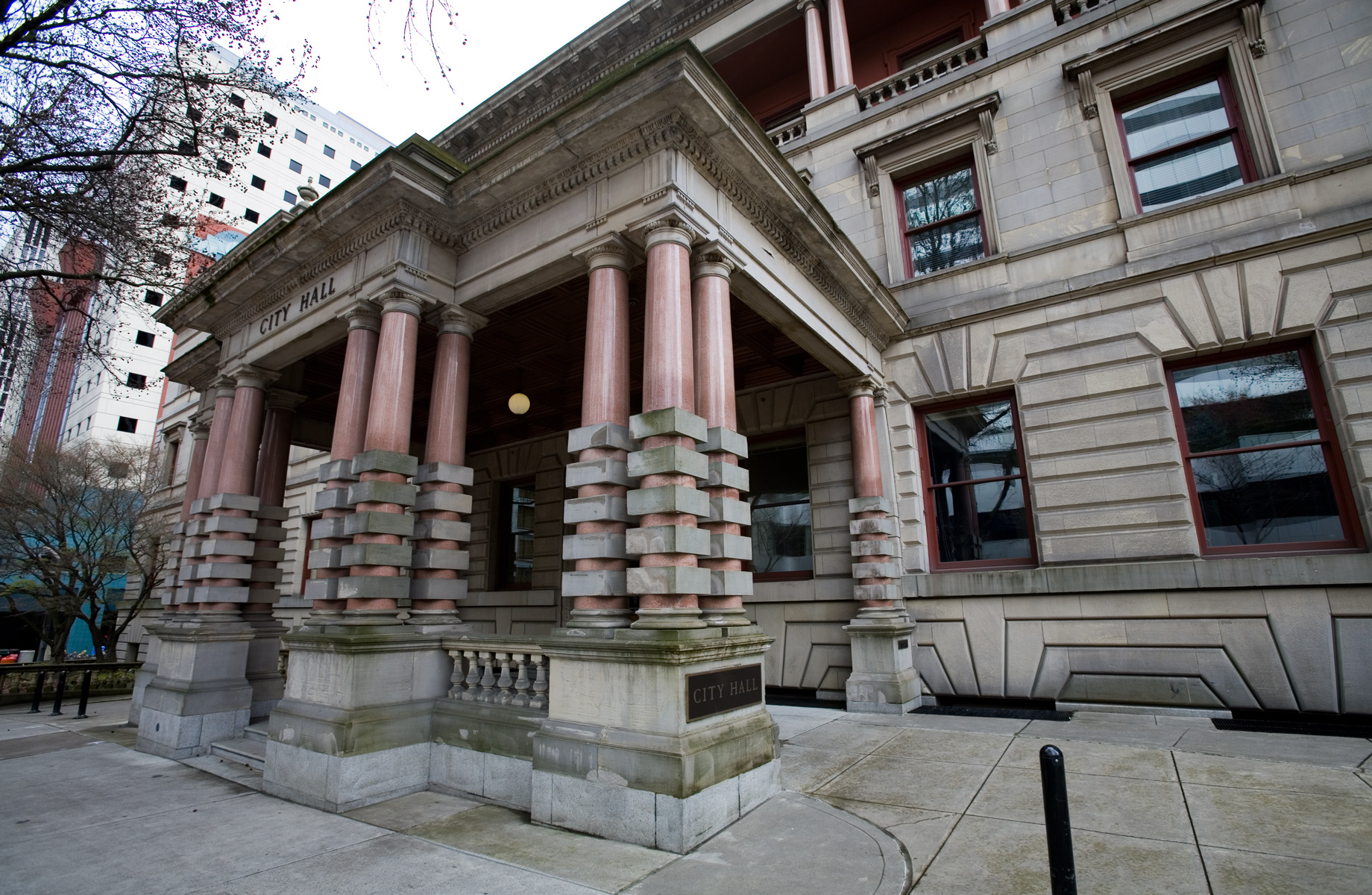 Portland City Hall from the 5th Avenue side.